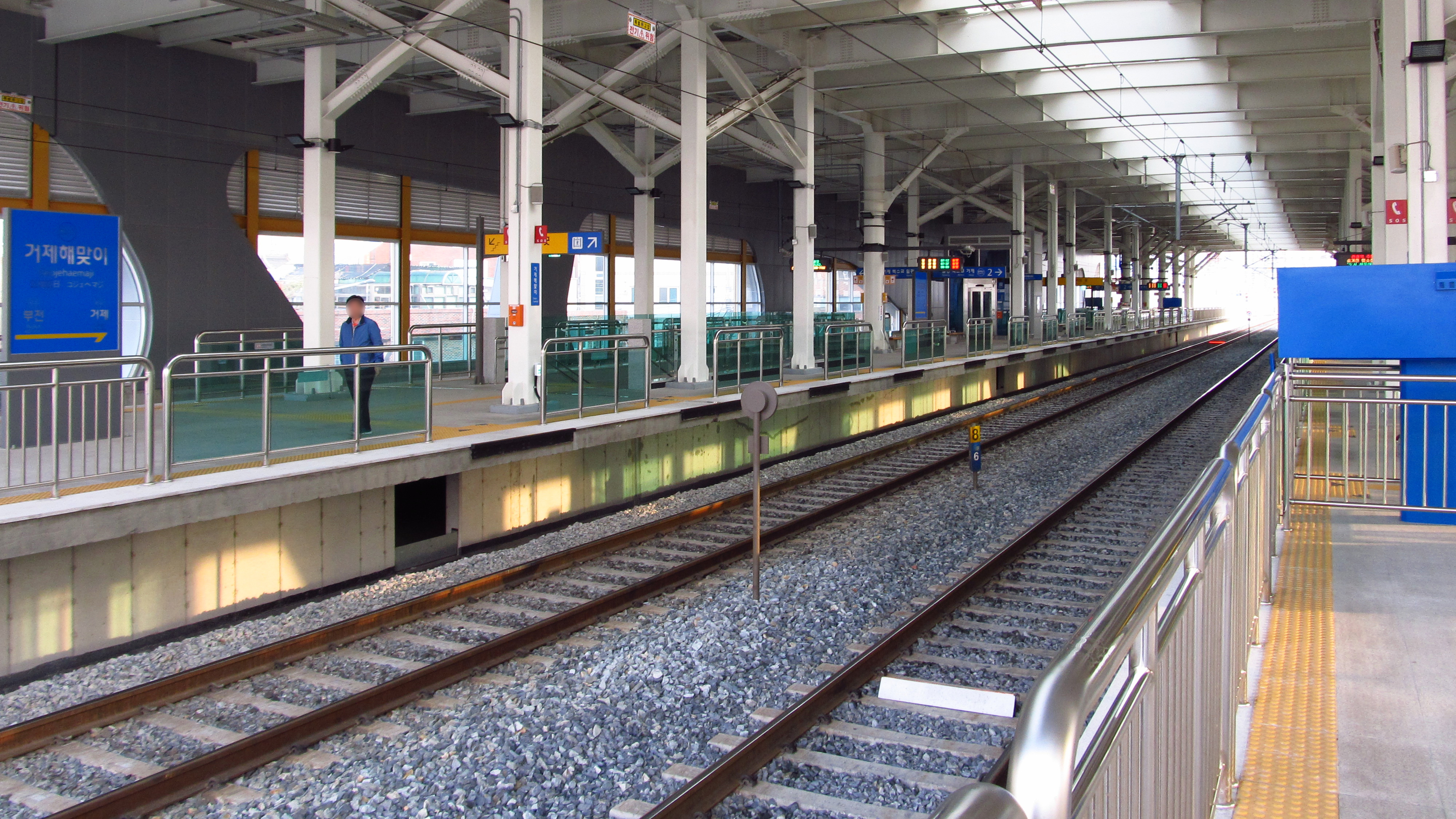 The platforms at Geojehaemaji Station on the Donghae Line in Yeonje-gu, Busan, Republic of Korea(South Korea)